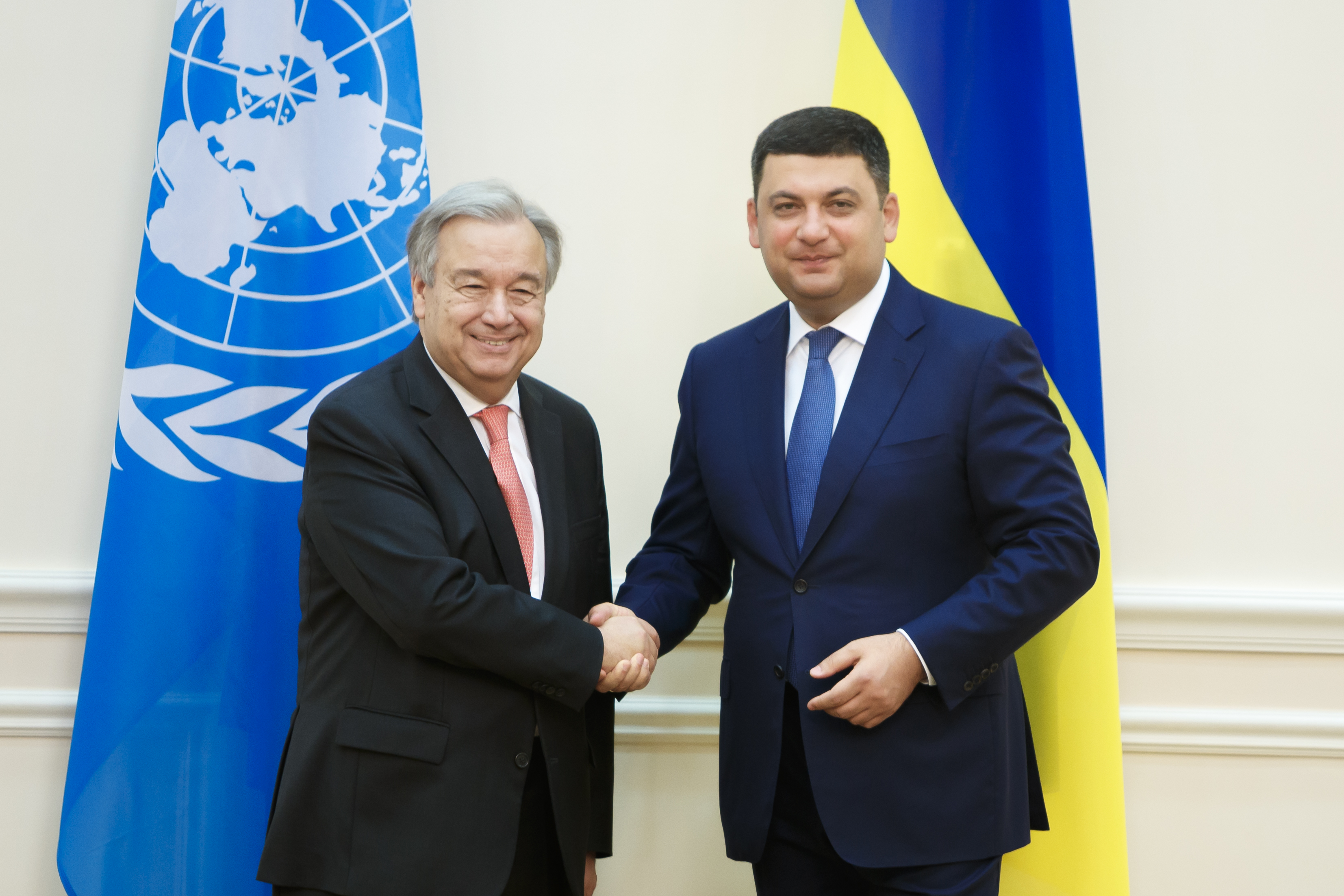 9 July 2017